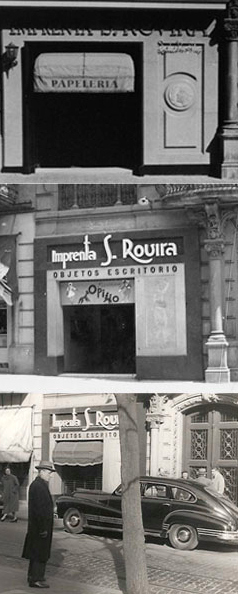 Anys 40 - 60 Rambla de Catalunya